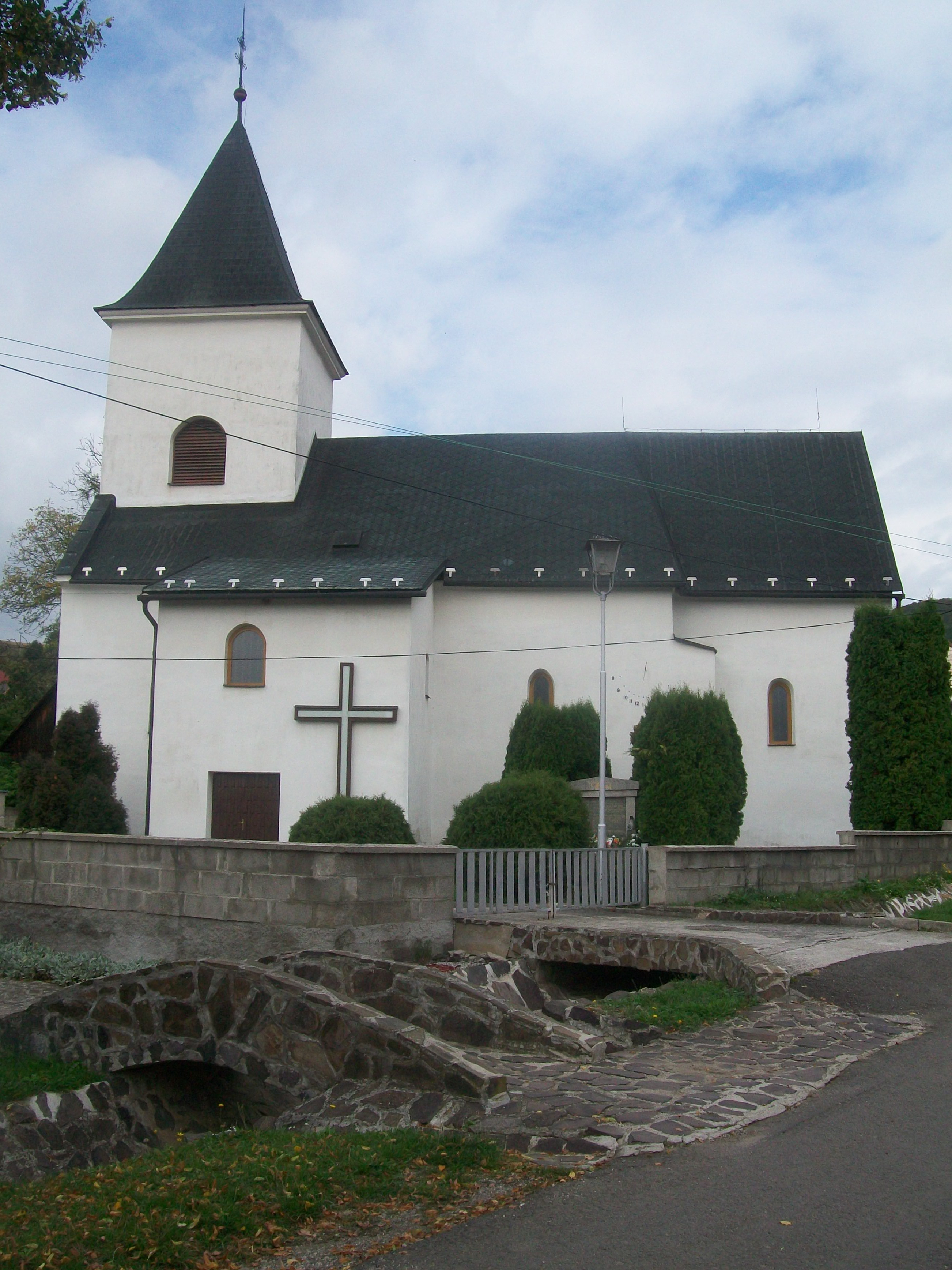 Ráztočno, Church of the Nativity of the Virgin Mary from the 13th centurySlovenčina: Ráztočno, kostol Narodenia Panny Márie z 13 storočia Object location48° 46′ 13.62″ N, 18° 45′ 23.22″ E